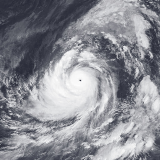 Typhoon Tip at its record peak intensity on October 12, 1979